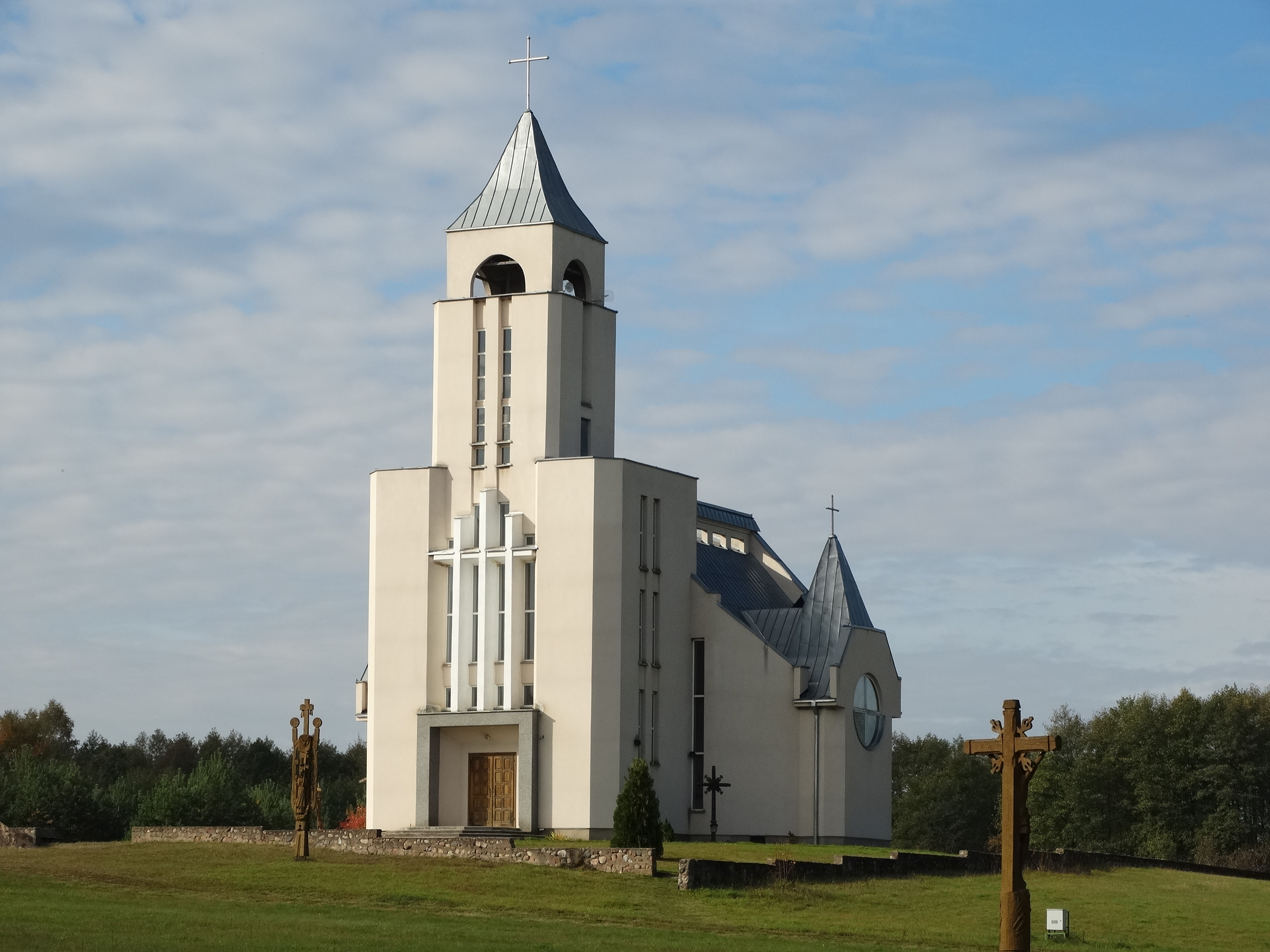 Kryžiai (Crosses) Chapel, Staigūnai, Lazdijai district, Lithuania